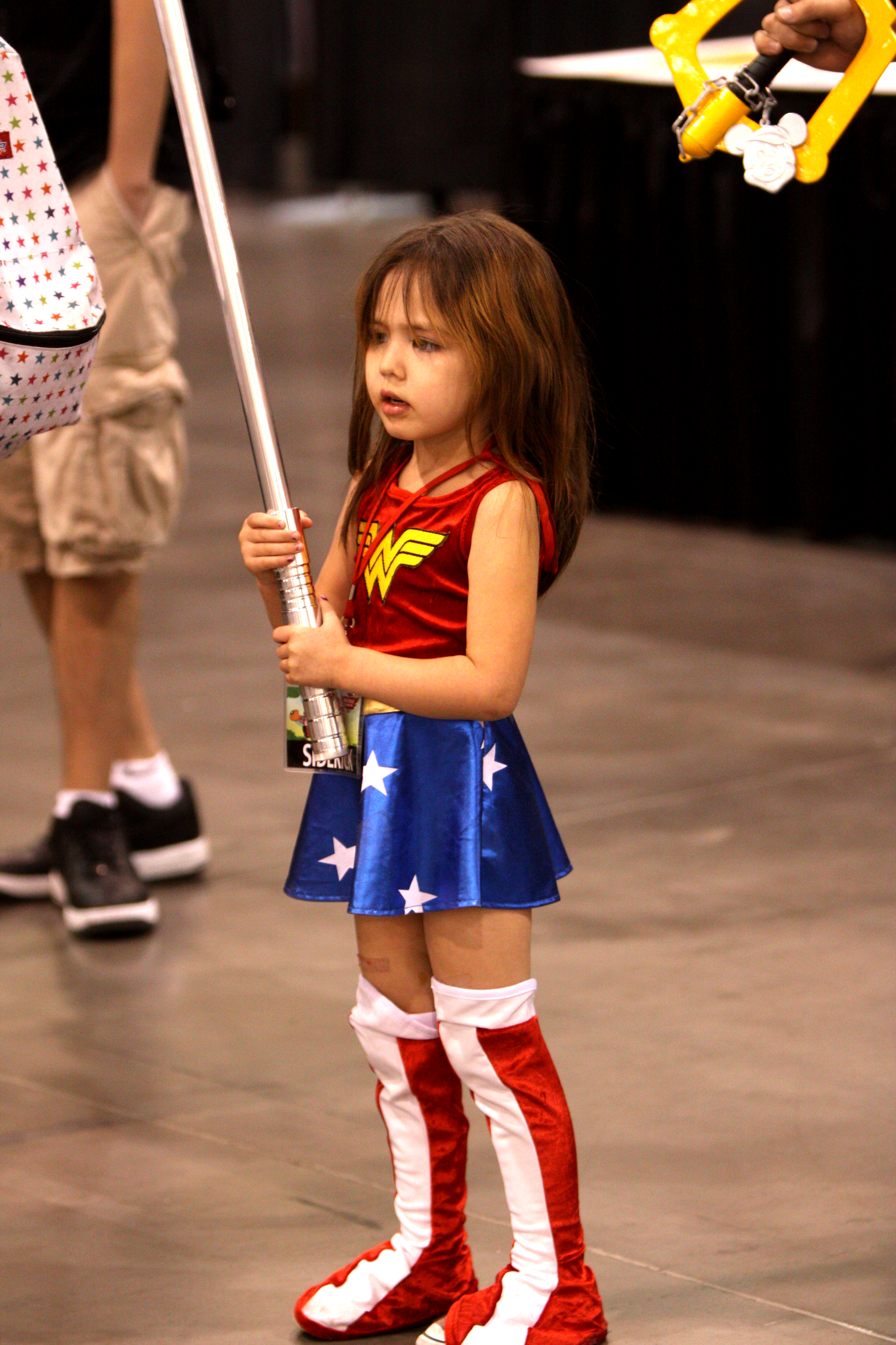 Wonder Girl at the Phoenix Comicon in Phoenix, Arizona.